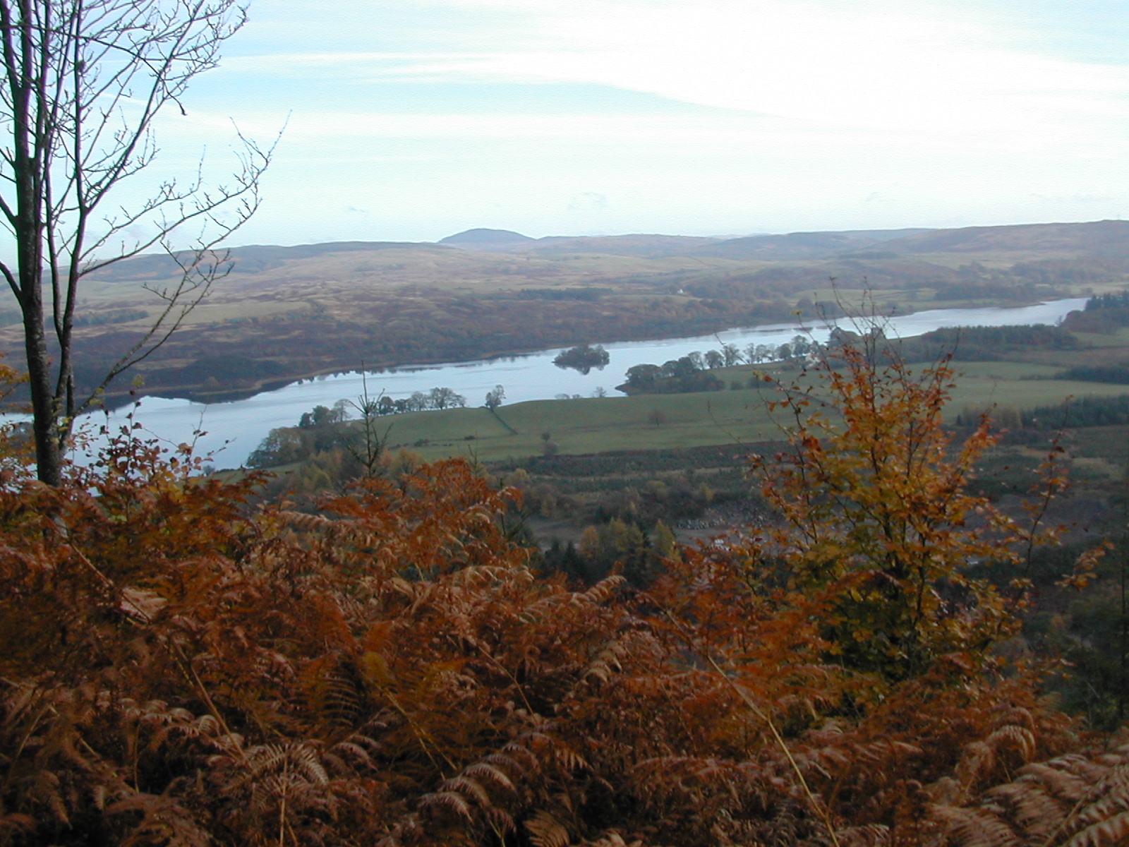 Nom du fichier : DSCN2640.JPG Taille du fichier : 684.9 Ko (701305 octets) Date : 2003/10/30 13:04:35 Taille de l'image : 1600 x 1200 pixels Résolution : 300 x 300 ppp Profondeur en bits : 8 bits/canal Attribut de protection : Désactivé Attribut Masqué : Désactivé ID de l'appareil : N/A Appareil : E775 Mode de qualité : FINE Mode de mesure : Multizones Mode d'exposition : Programme Auto Speed Light : Non Distance Focale : 5.8 mm Vitesse d'obturation : 1/103.7 seconde Ouverture : F7.9 Correction d'exposition : 0 IL Balance des blancs : Auto Objectif : Intégré Mode Synchro-Flash : N/A Différence d'exposition : N/A Programme Décalable : N/A Sensibilité : Auto Renforcement de la netteté : Auto Type d'image : Couleur Mode Couleur : N/A Saturation : N/A Contrôle Saturation : N/A Compensation des tons : Normal Latitude (GPS) : N/A Longitude (GPS) : N/A Altitude (GPS) : N/A